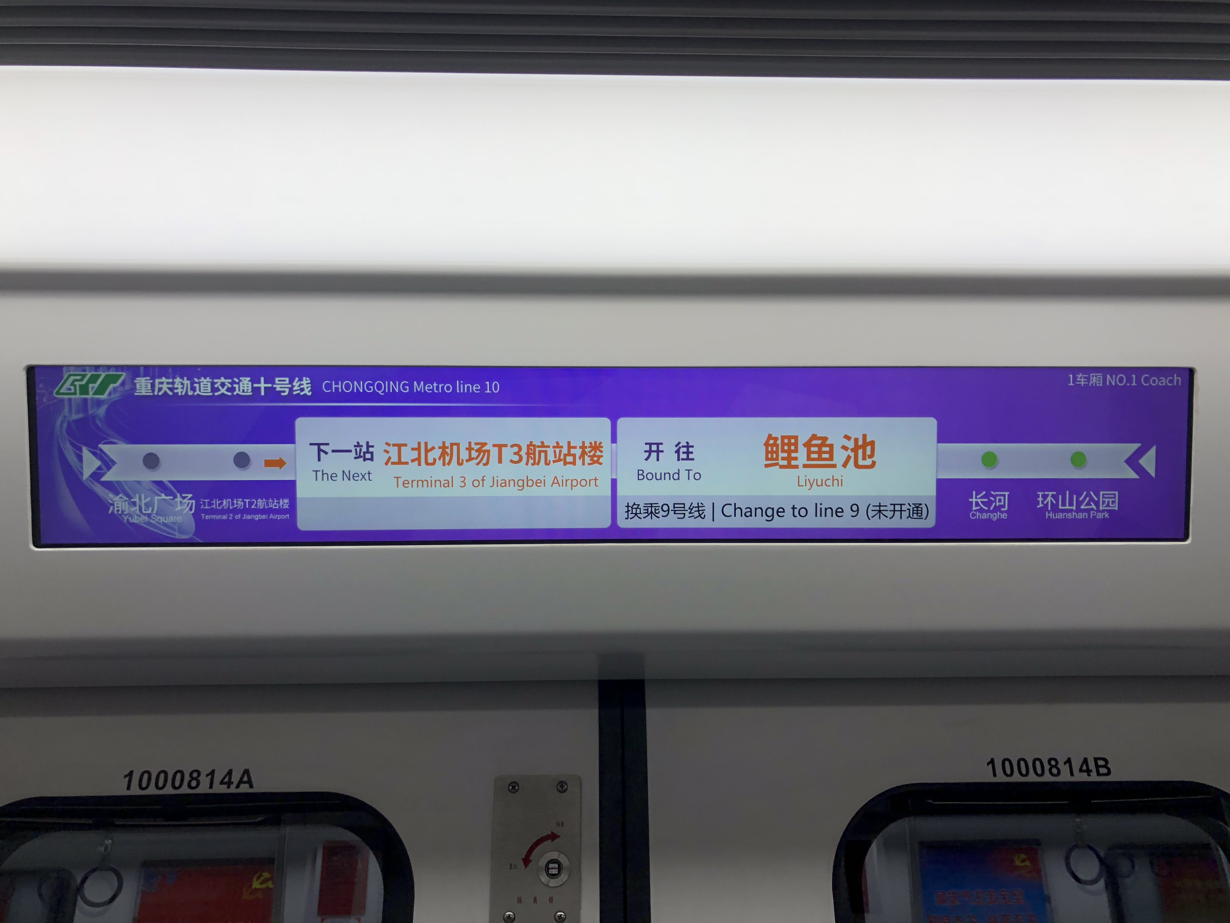 This is a LCD screen on a Line 10 train of Chongqing Rail Transit(CRT) bound for Liyuchi, displaying information on its approaching station, Terminal 3 of Jiangbei Airport.